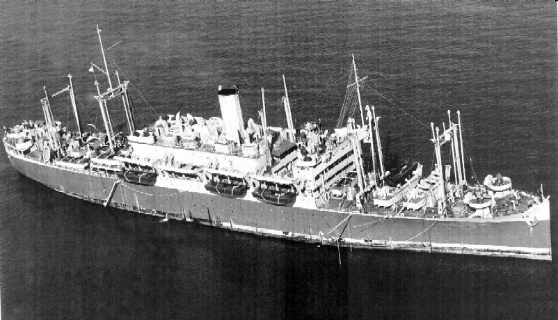 USS Tasker H. Bliss (AP-42) at anchor, date and location unknown. Note the small hold abaft her bridge. The two boats lying across her foredeck are LCM(3)s; note the skids for a smaller boat to be stowed atop the forward one. US Navy photo from "US Amphibious Ships and Craft", by Norman Freidman.